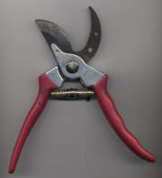 Pruning shears.